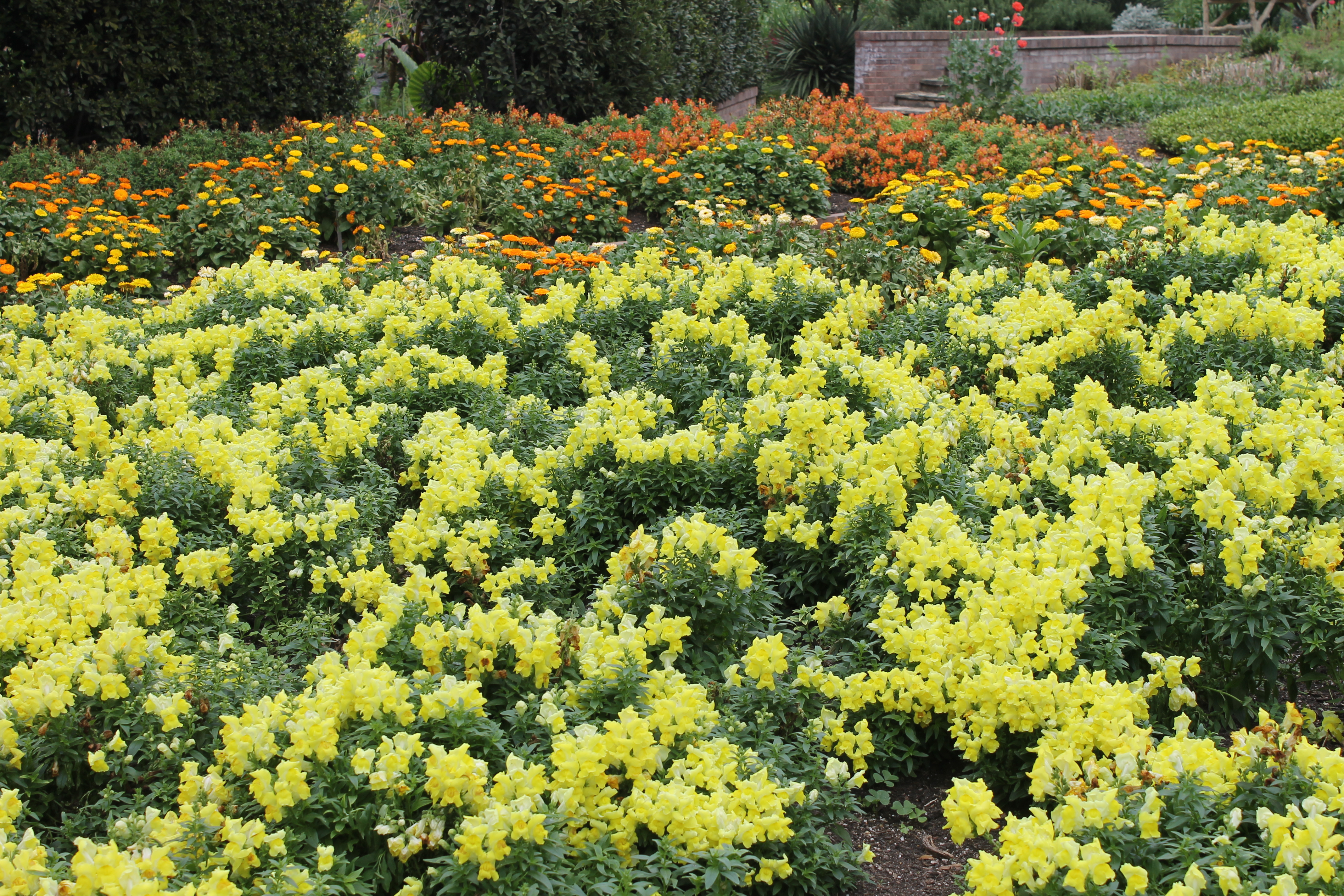 Dwarf germander flowers at San Antonio Botanical Garden